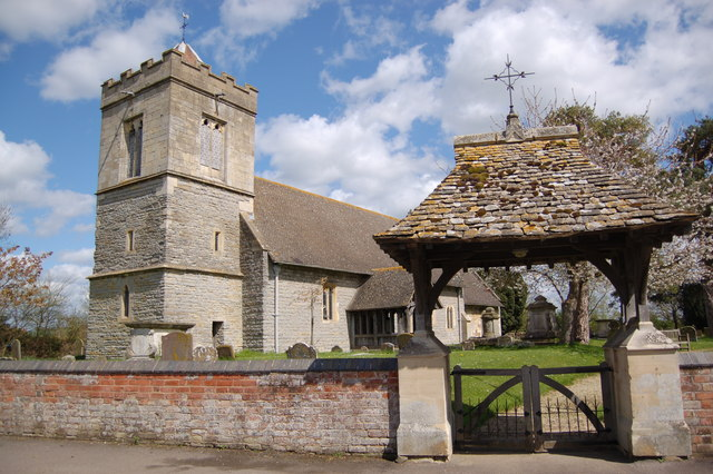 St Lawrence Church, Sandhurst and lych gate